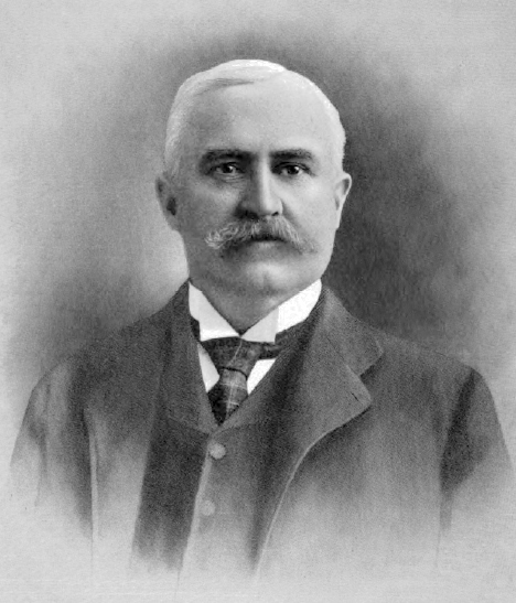 William Joseph Mills(1849-01-11 – 1915-12-24), 19th and final Governor of New Mexico Territory(1910-12).